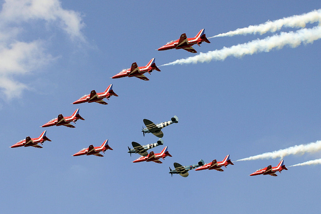 Red Arrows - RIAT 2005